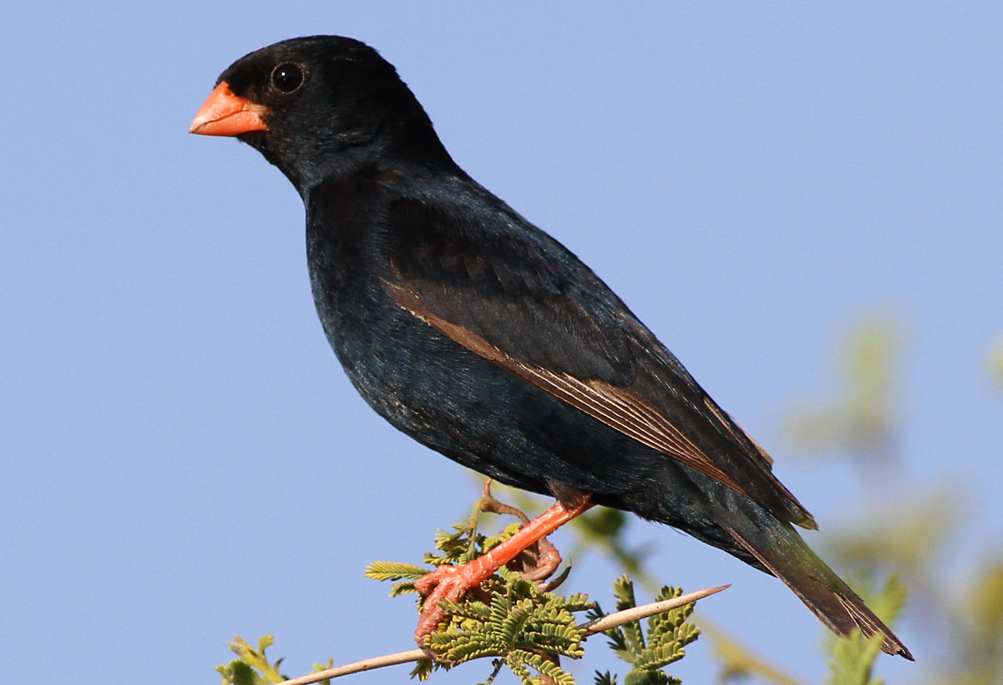 Village indigobird, Vidua chalybeata, at Mapungubwe National Park, Limpopo, South Africa (male)